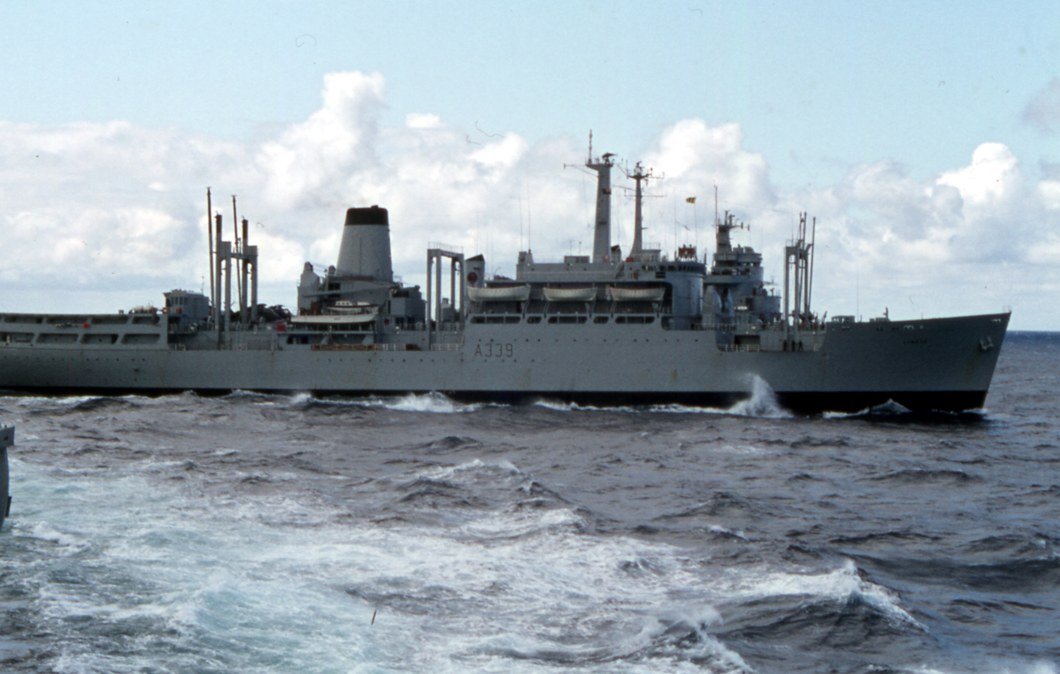 RFA Lyness (A 339) in PASSEX with HMS Intrepid and FGS Deutschland (A 59) in Bay of Biscay, June 1980